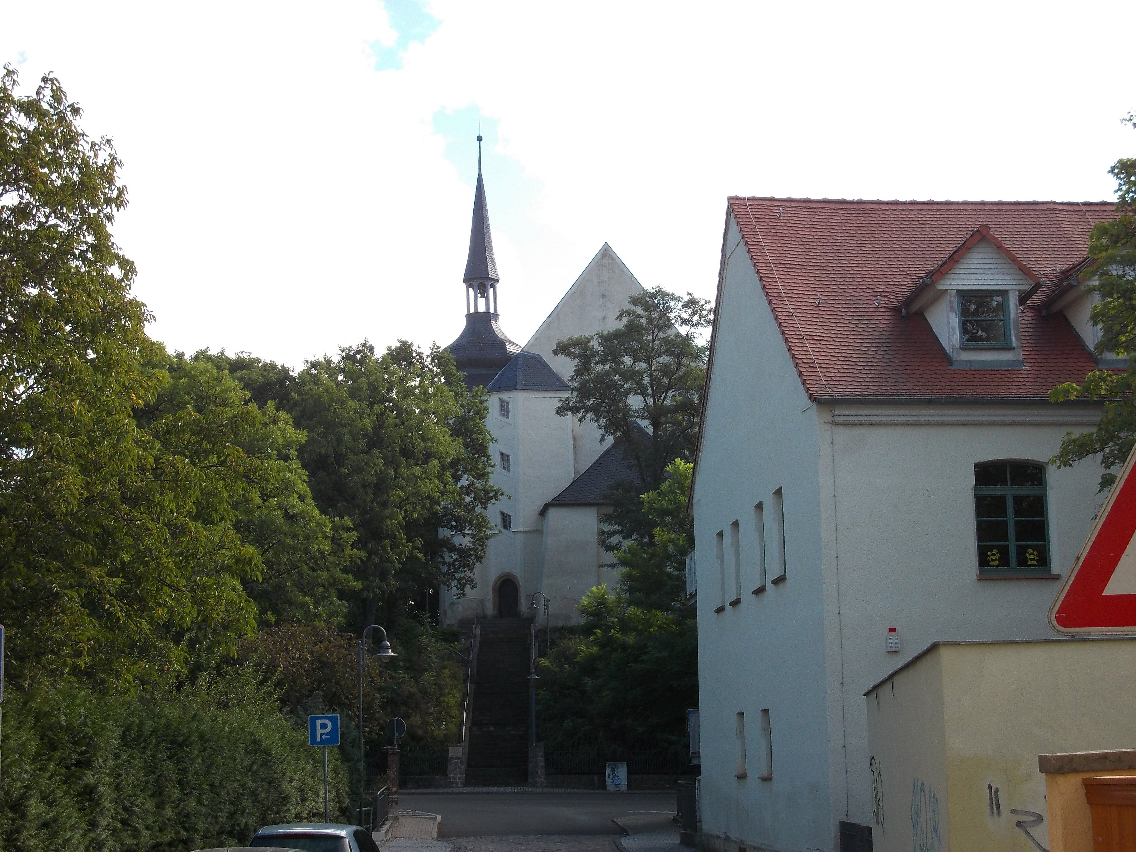 St. George's Church in Teuchern (district of Burgenlandkreis, Saxony-Anhalt), view from Steinweg